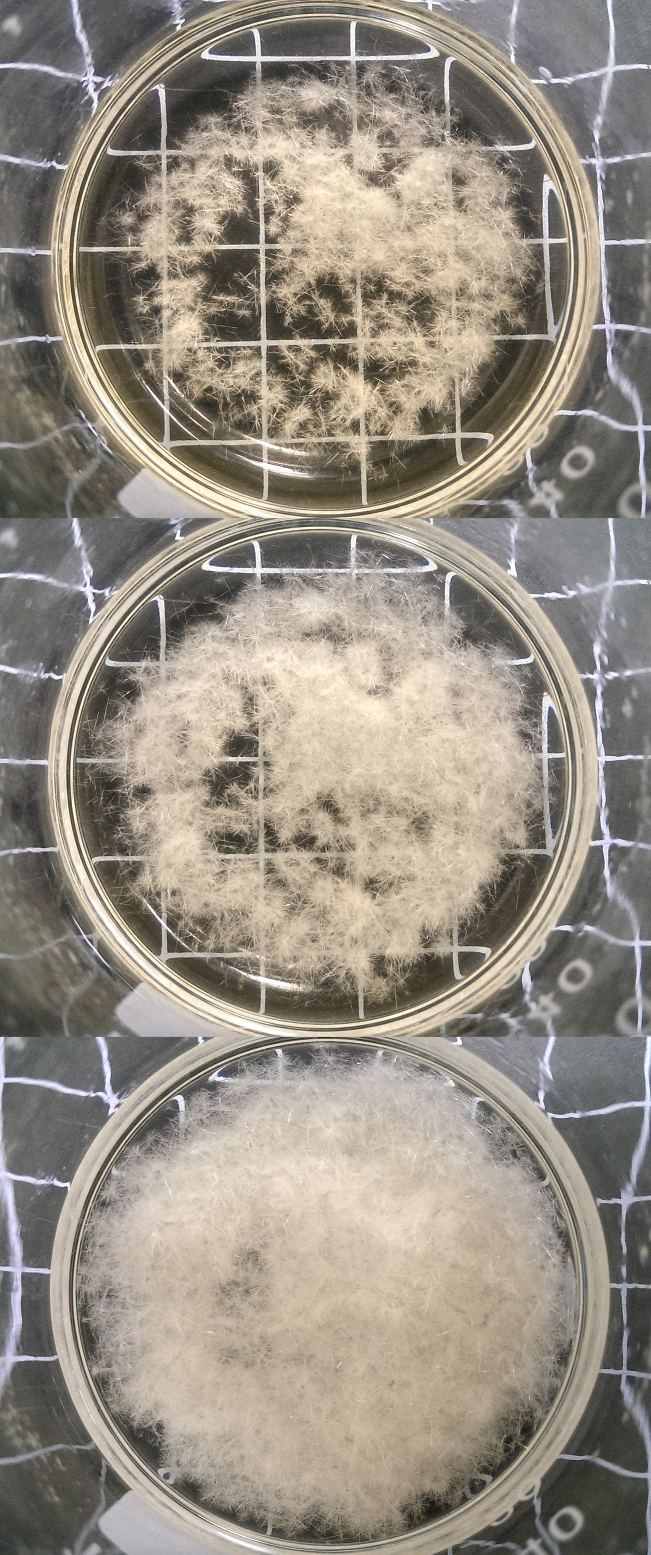 Recrystallization of an organic compound.